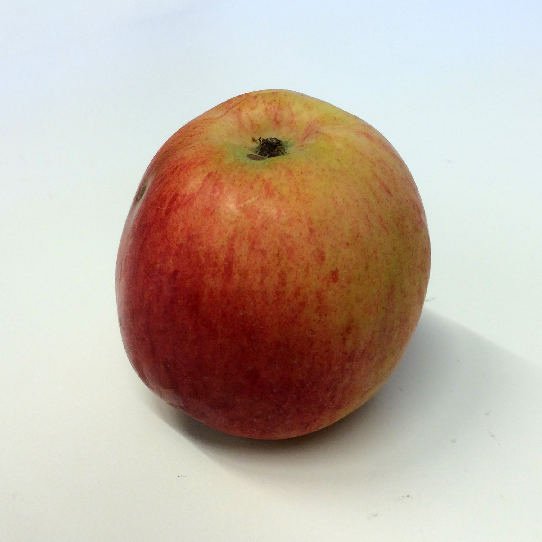 Apple of the cultivar Cortland, photographed in conjunction with the Apple Festival at Nordiska museet, Stockholm, Sweden in September 2014.